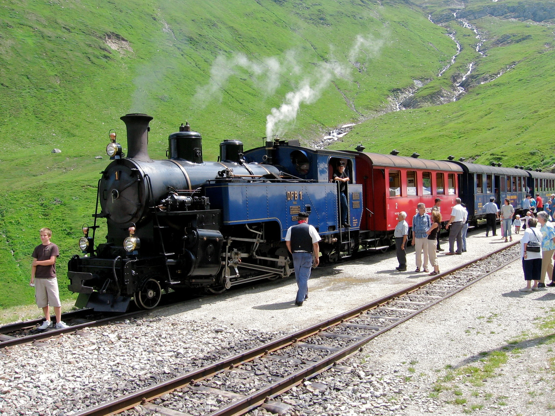 A train of the Dampfbahn Furka-Bergstrecke at an intermediate halt.